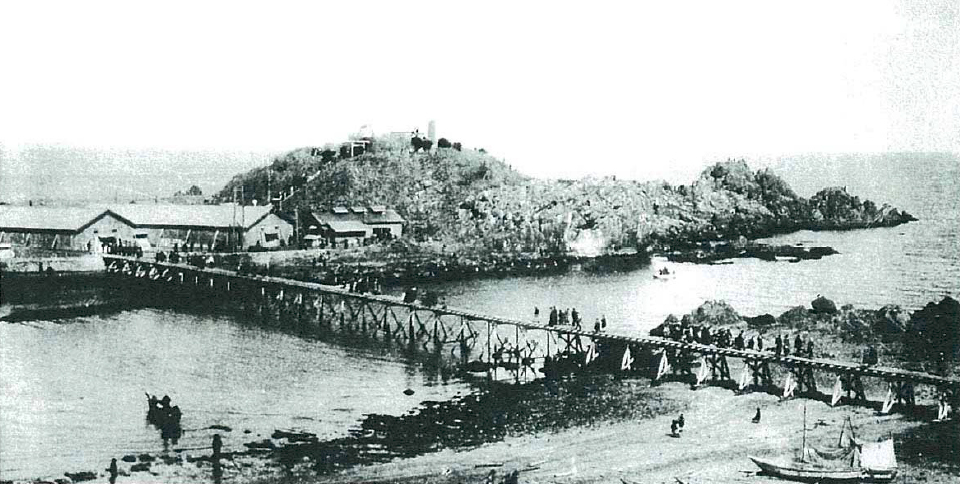 Kabushima circa 1922. The bridge was completed in 1919.[1]